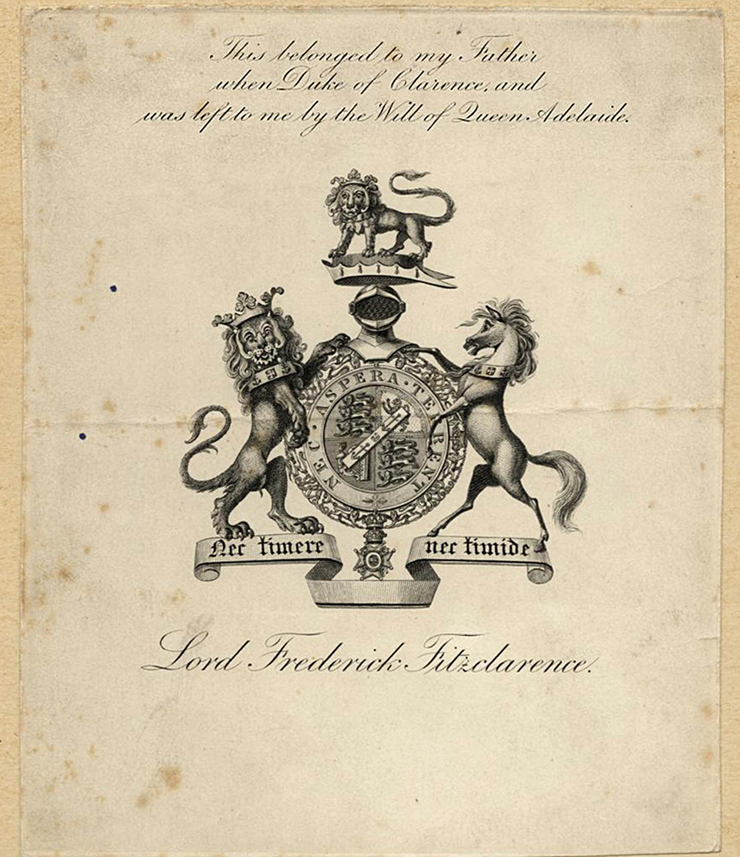 Armorial/Heraldic Bookplates. Subject: Coat of arms; Shields; Armor; Animals. Subject - Personal Name: FitzClarence, Frederick.